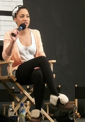 Cush Jumbo at The Hub 4, a Torchwood convention, in Northampton.